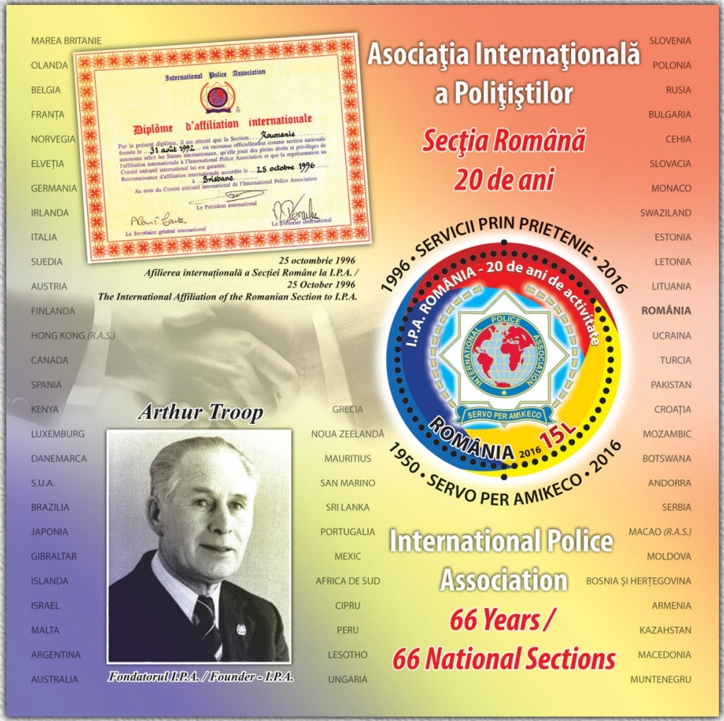 20 Years of the International Police Association, Romanian section